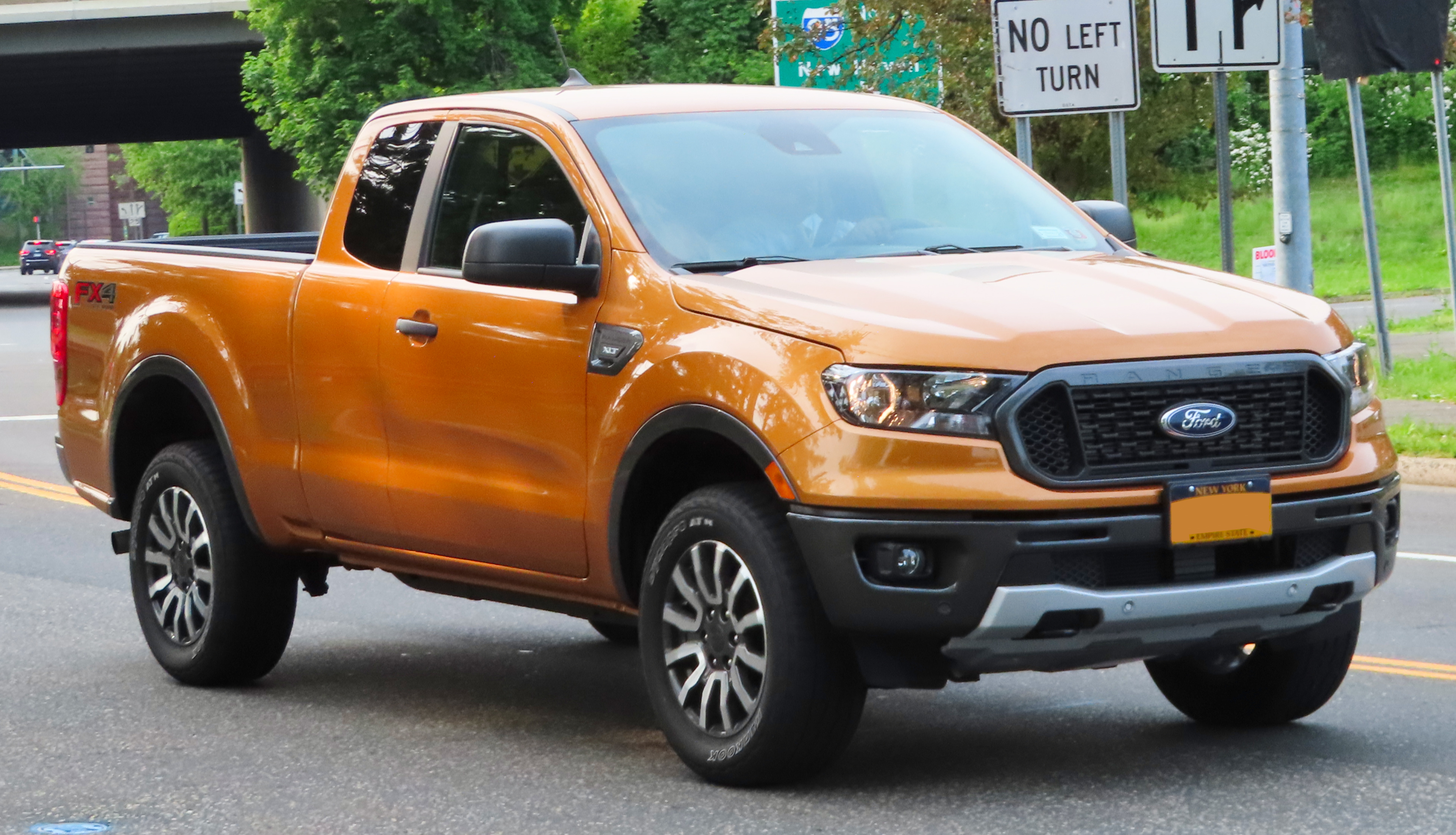 A 2019 Ford Ranger XLT Super Cab photographed in Greenwich, Connecticut, USA